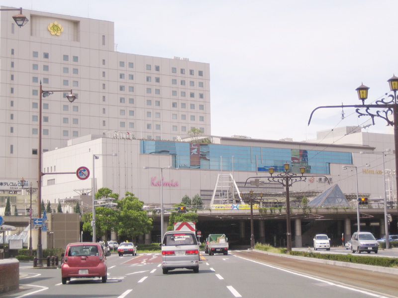 Toyohashi Station in Toyohashi City, Aichi Prefecture, Japan